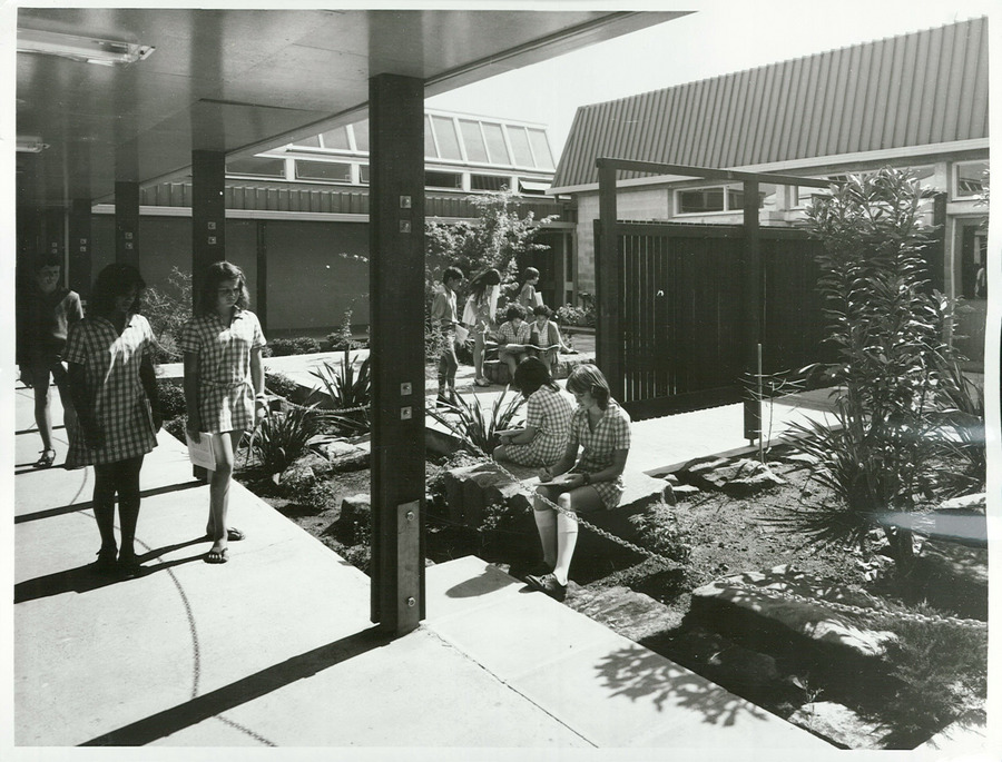 Title: Schools - Secondary Publicity Caption: Rotorua Lake High School. Photographer: unidentified 1974 Rotorua Reference: R24810221 AAQT 6539 W3537 150 / B6919